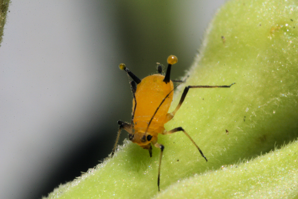 Aphid feeding on sap